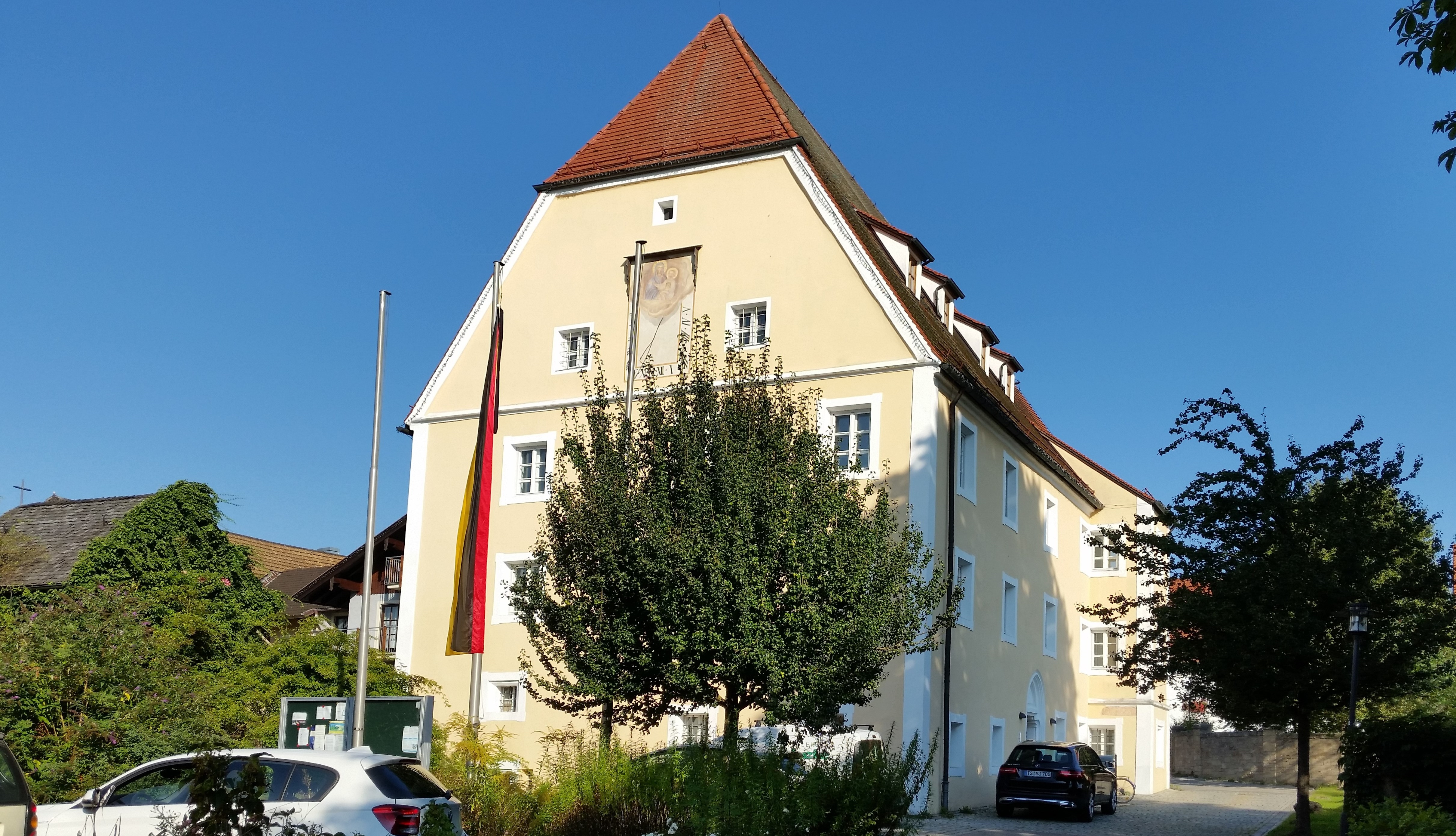 This is a photograph of an architectural monument.